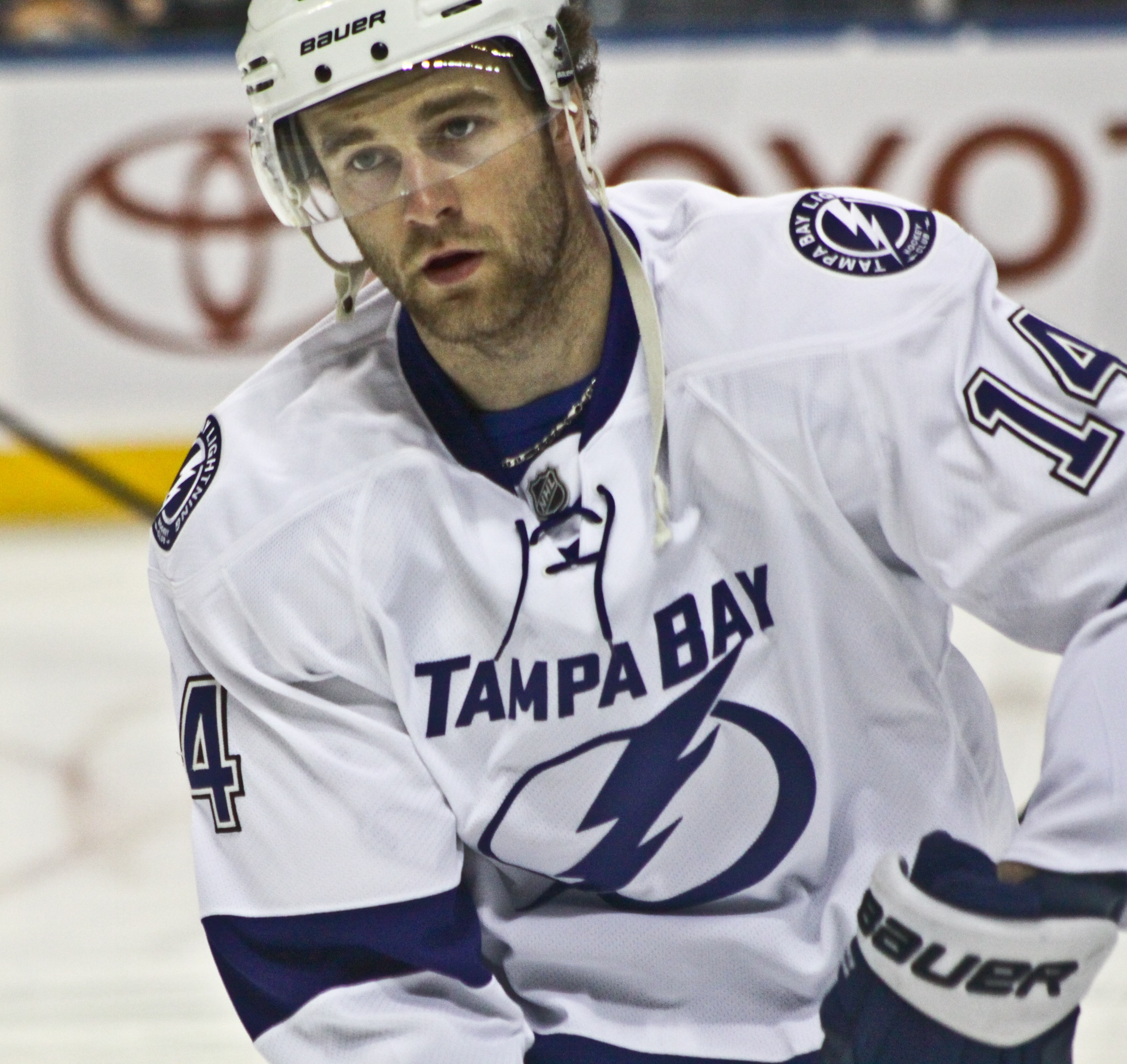 Brett Connolly warms up before a game in Buffalo NY.